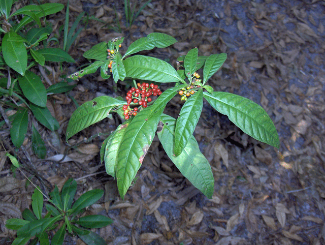 Found in Highlands Hammock State Park, Florida.